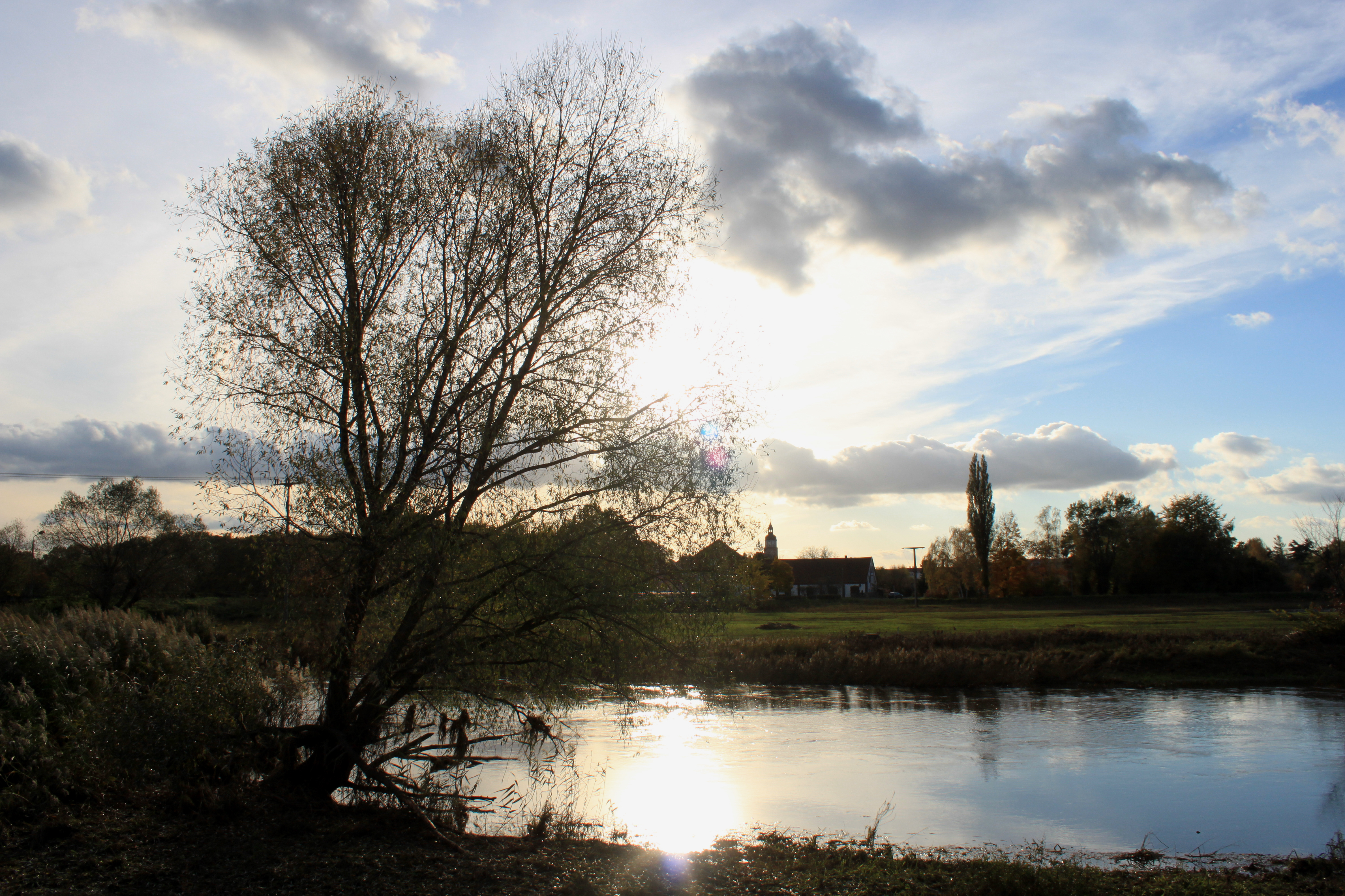 Herzberg/Elster at the Schwarze Elster river